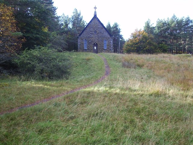 Altnaharra Church, upper Strathnaver, Scotland